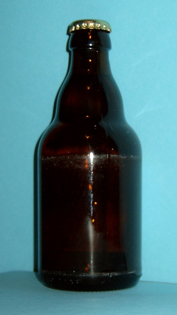 stubbi, filled with beer, closed with a crown cork